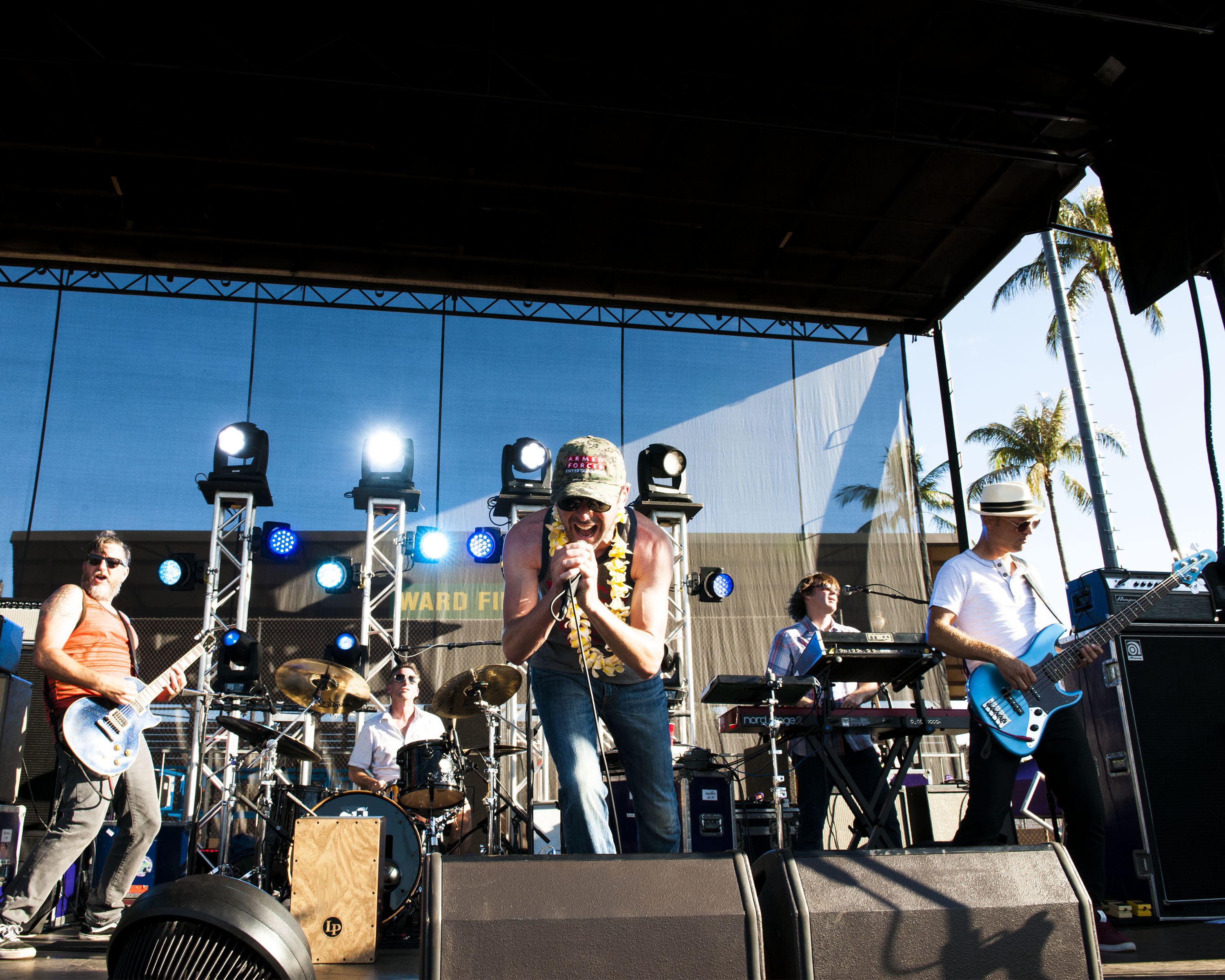 150704-N-ON468-240 PEARL HARBOR (July 4, 2015) Alternative rock band Dishwalla performs at a Fourth of July celebration event at Joint Base Pearl Harbor Hickam. The Fourth of July event also included a performance from the band O.A.R., a street bike stunt performance from professional street bike stunt rider Aaron Colton, a fireworks display and a kids theme park. (U.S. Navy photo by Mass Communication Specialist 2nd Class Jeff Troutman/Released)